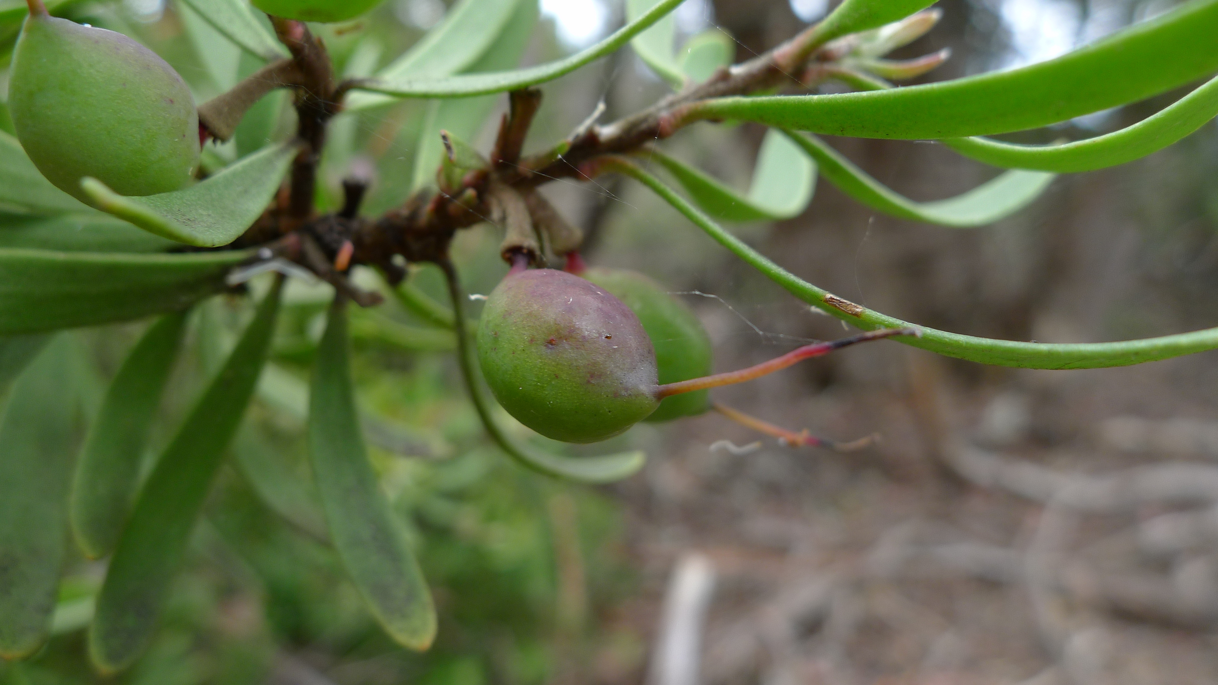 Mueller's Geebung with fruit, probably Persoonia muelleri. Lake St Clair, Tasmania Australia, January 2012.